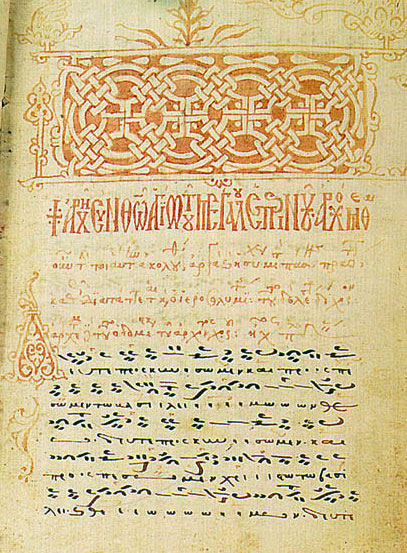 A musical manuscript of 1433 (Pantokratoros monastery, code 214)